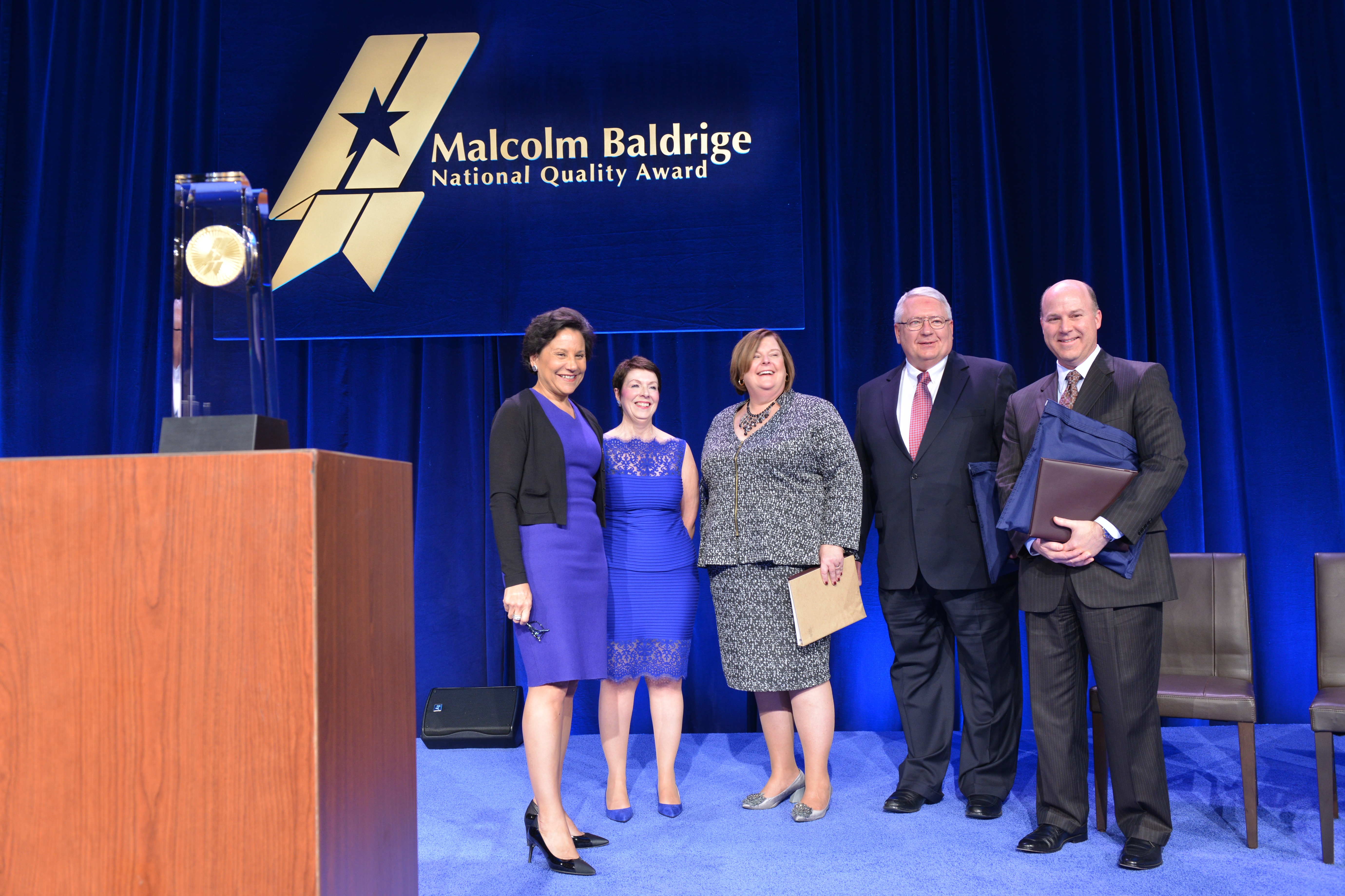 (from left) Secretary of Commerce Penny Pritzker; Janet Wagner, CEO, Sutter Davis Hospital; JoAnn Sternke, Superintendent, Pewaukee School District; Larry Dux, Board of Education Clerk, Pewaukee School District; and James Conforti, President, Sutter Health Sacramento Sierra Region; 2013 Baldrige Award Ceremony, April 6, 2014 Photo credit: Eddie Arrossi Disclaimer: Any mention of commercial products within NIST web pages is for information only; it does not imply recommendation or endorsement by NIST. Use of NIST Information: These World Wide Web pages are provided as a public service by the National Institute of Standards and Technology (NIST). With the exception of material marked as copyrighted, information presented on these pages is considered public information and may be distributed or copied. Use of appropriate byline/photo/image credits is requested.